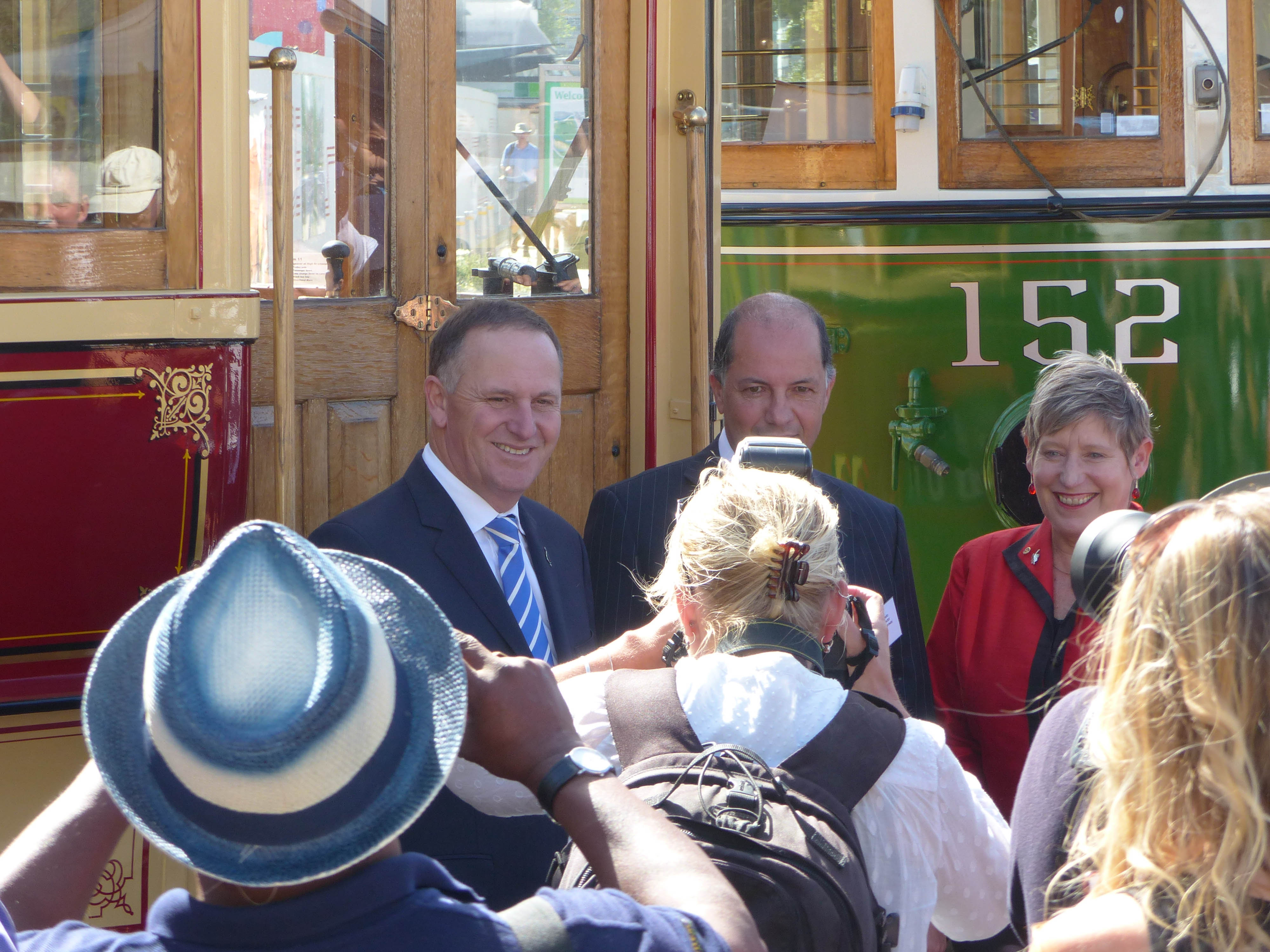 Christchurch Tram Launch, the opening of the southern circuit through City Mall and along High Street, on 12 February 2015.